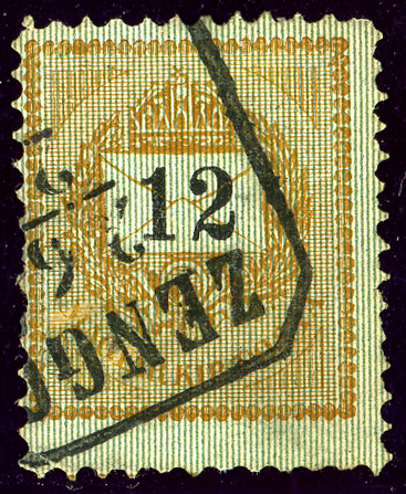 Kingdom of Hungary 12 kr stamp, issue 1888, cancelled ZENGG in frame (Croatia Military Border).